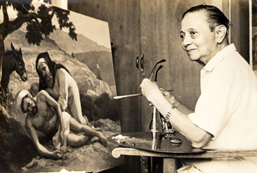 Filipino painter Fernando Amorsolo in his studio